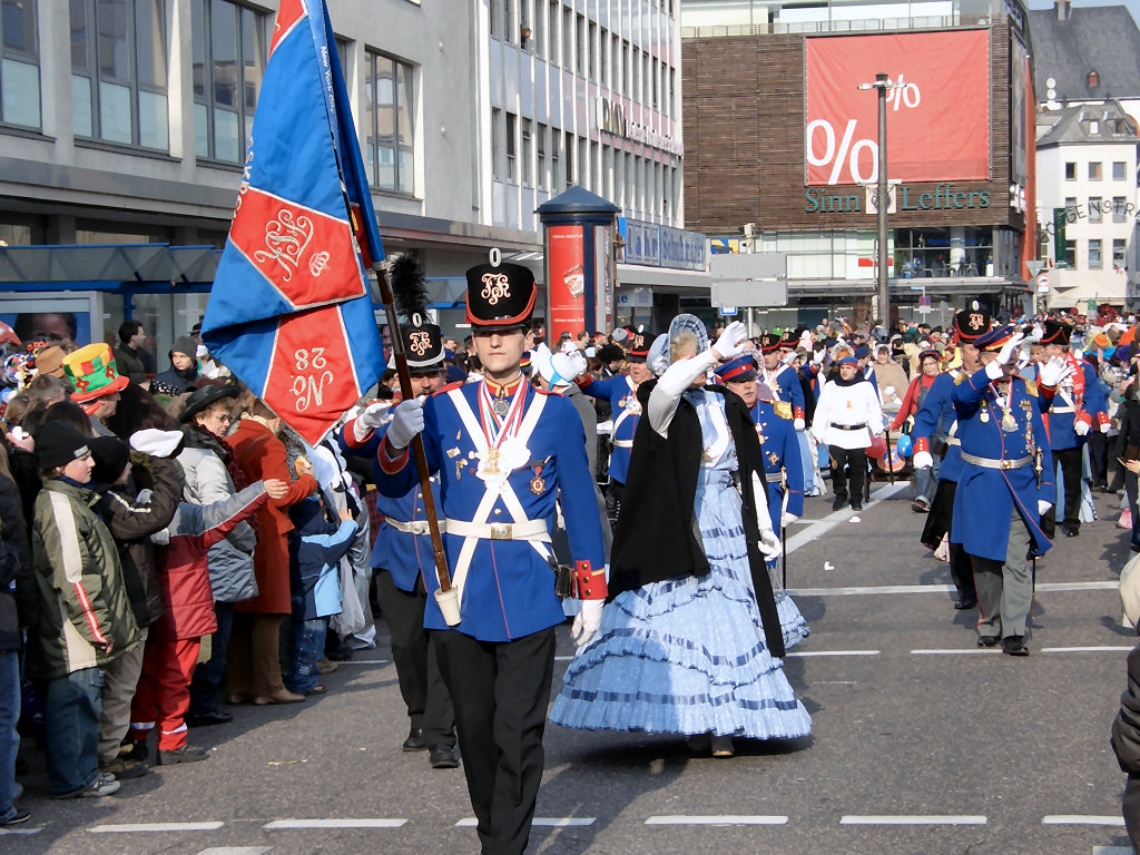 Carnival in Koblenz